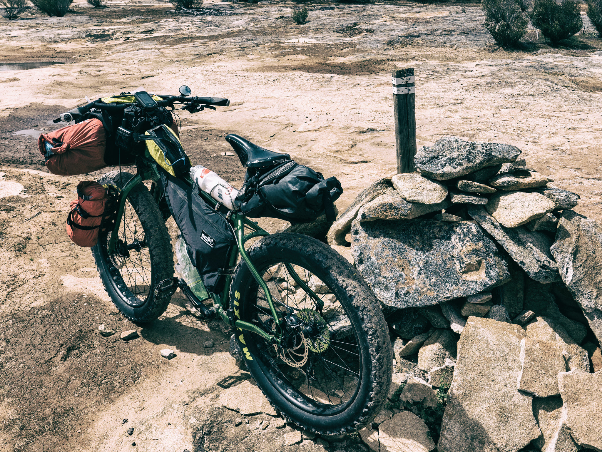 500px provided description: Holland Track Day 2: Typical trail marker found where the Track crosses a granite outcrop. [#bicycle ,#bike ,#cycle ,#2016 ,#bikepacking ,#Lightroom ,#Western Australia ,#Preset ,#4WD ,#Salsa ,#Google ,#Nik Collection ,#Fatbike ,#Analog Efex Pro 2 ,#Bicycle touring ,#Salsa Mukluk ,#Bikepacking ,#Holland Track ,#Classic Camera 4]